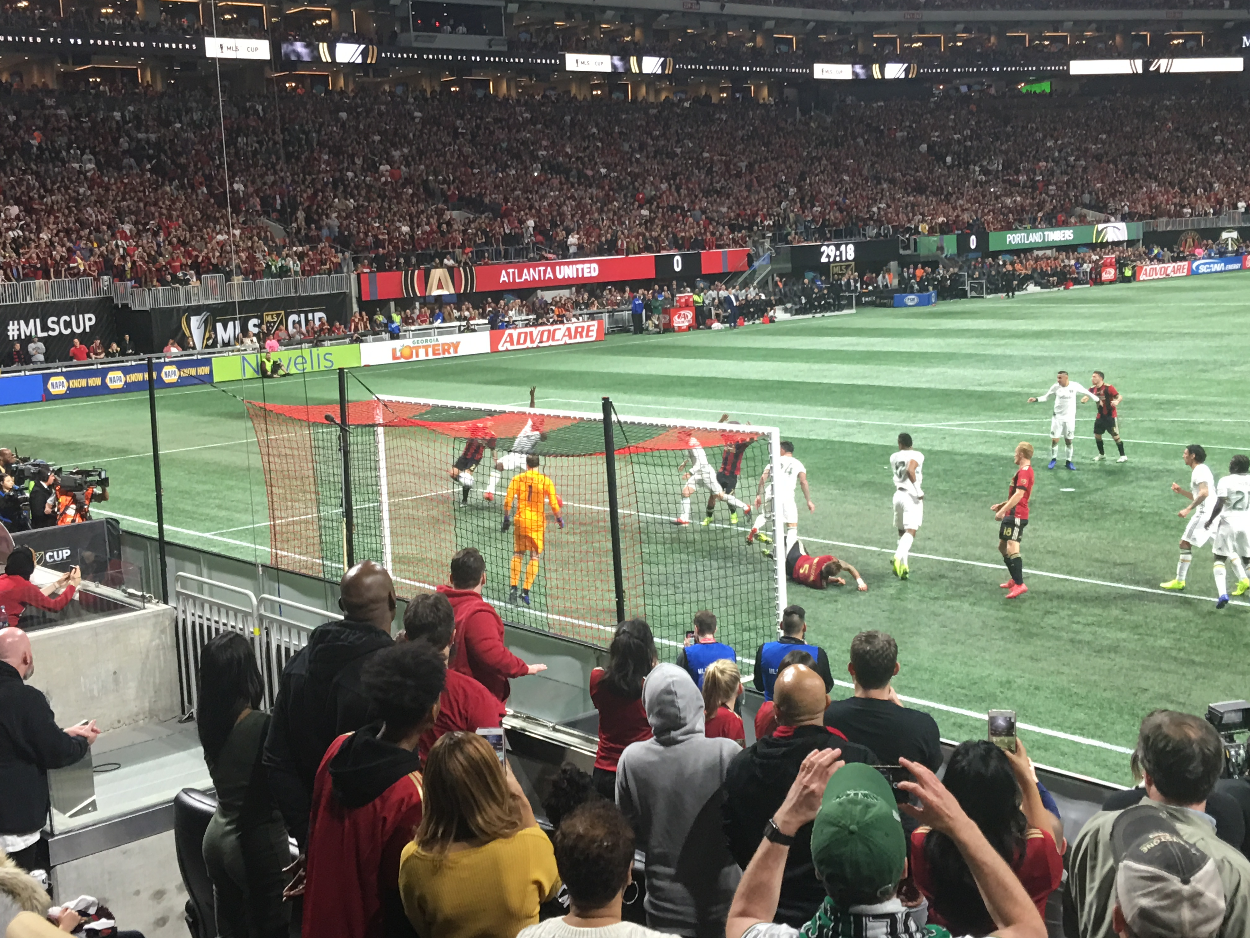 2018-12-08 - Atlanta United vs Portland